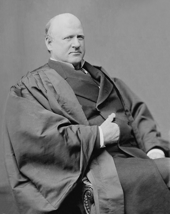 John Marshall Harlan (1833-1911); US Supreme Court Judge (1877-1911)